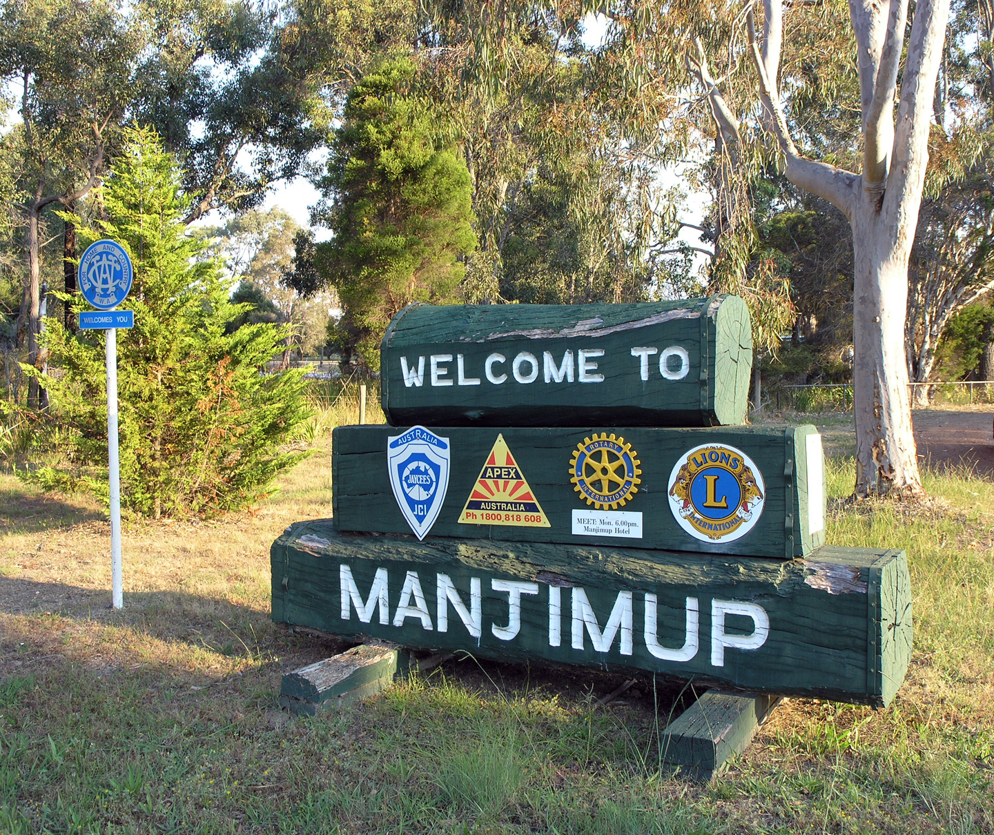 Welcome to Manjimup sign outside the town, taken by myself.